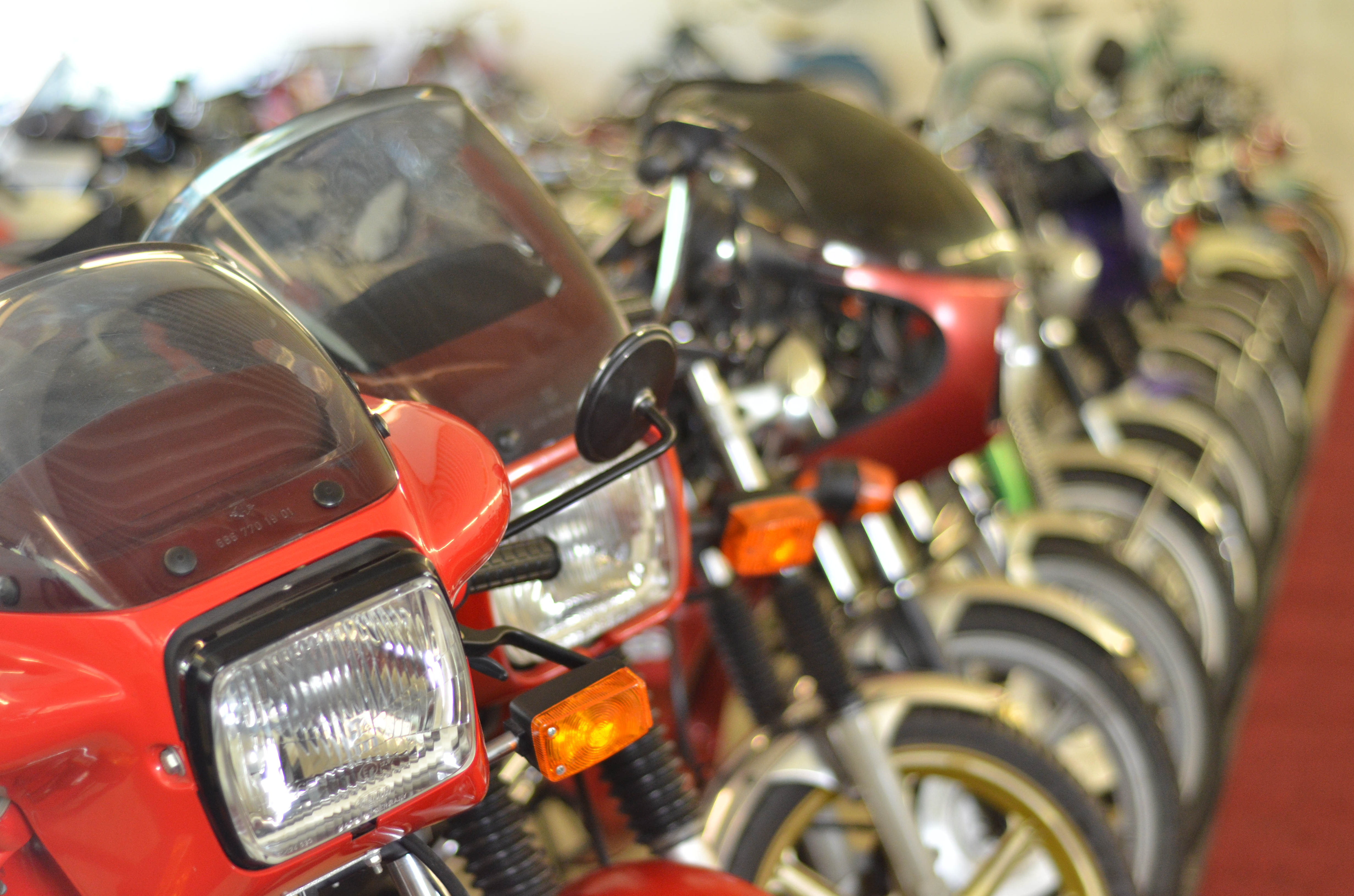 Hugh collection of motorcycles in the Deutsches Fahrzeugmuseum Fichtelberg.